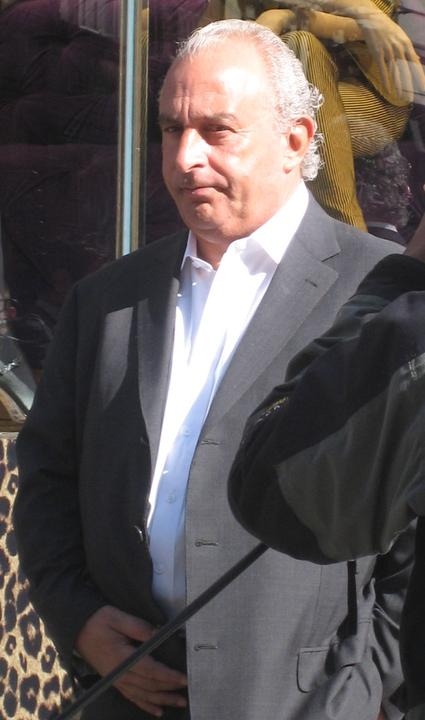 British billionaire businessmen Philip Green outside a branch of TopShop in 2007.